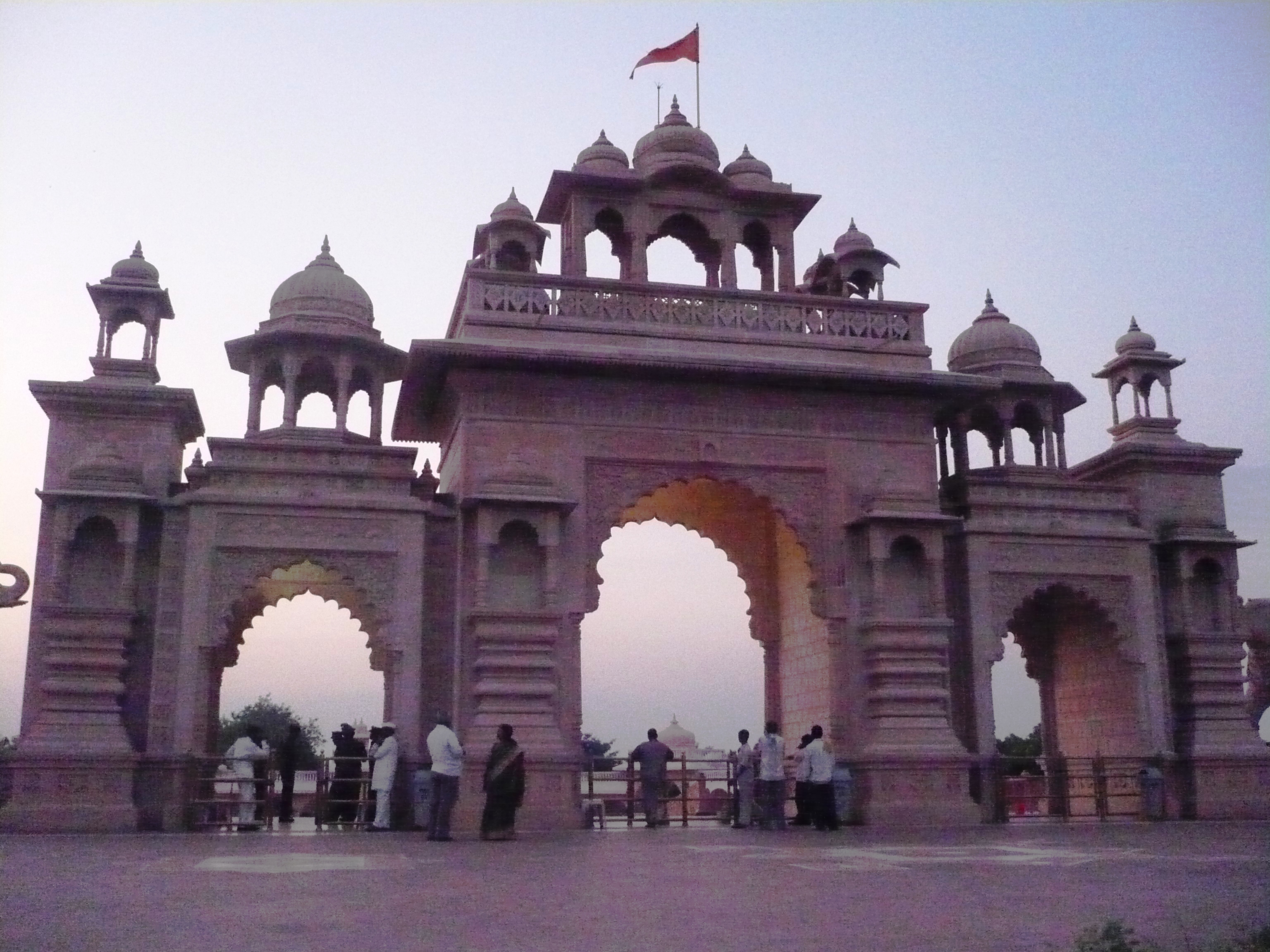 This is my own work and anyone can use it.